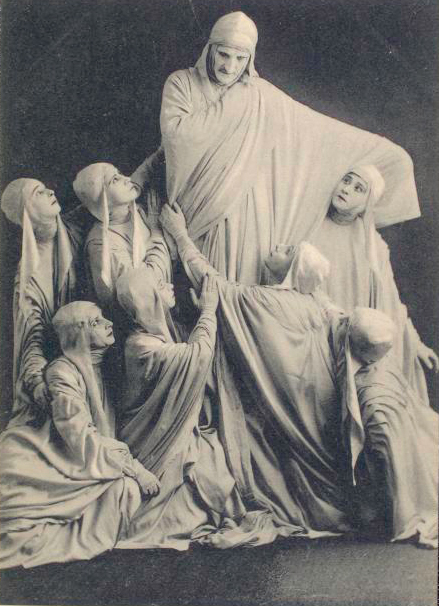 Maurice Maeterlinck's The Blue Bird at the Moscow Art Theatre in 1908, directed by Konstantin Stanislavski.